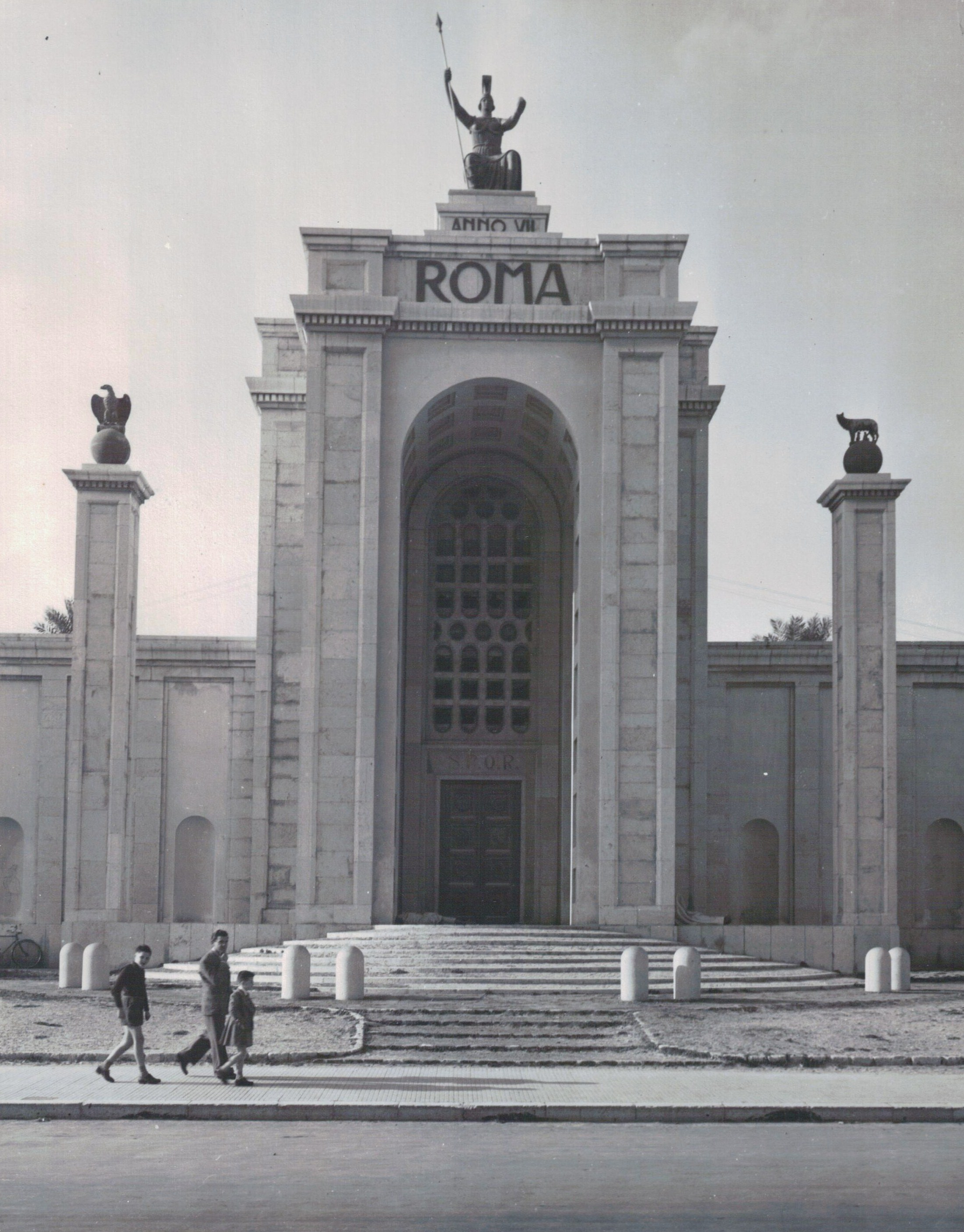 my dad was stationed at Wheelus AFB from 1950 to 1955. He took us to this Roman city. I have more pictures.